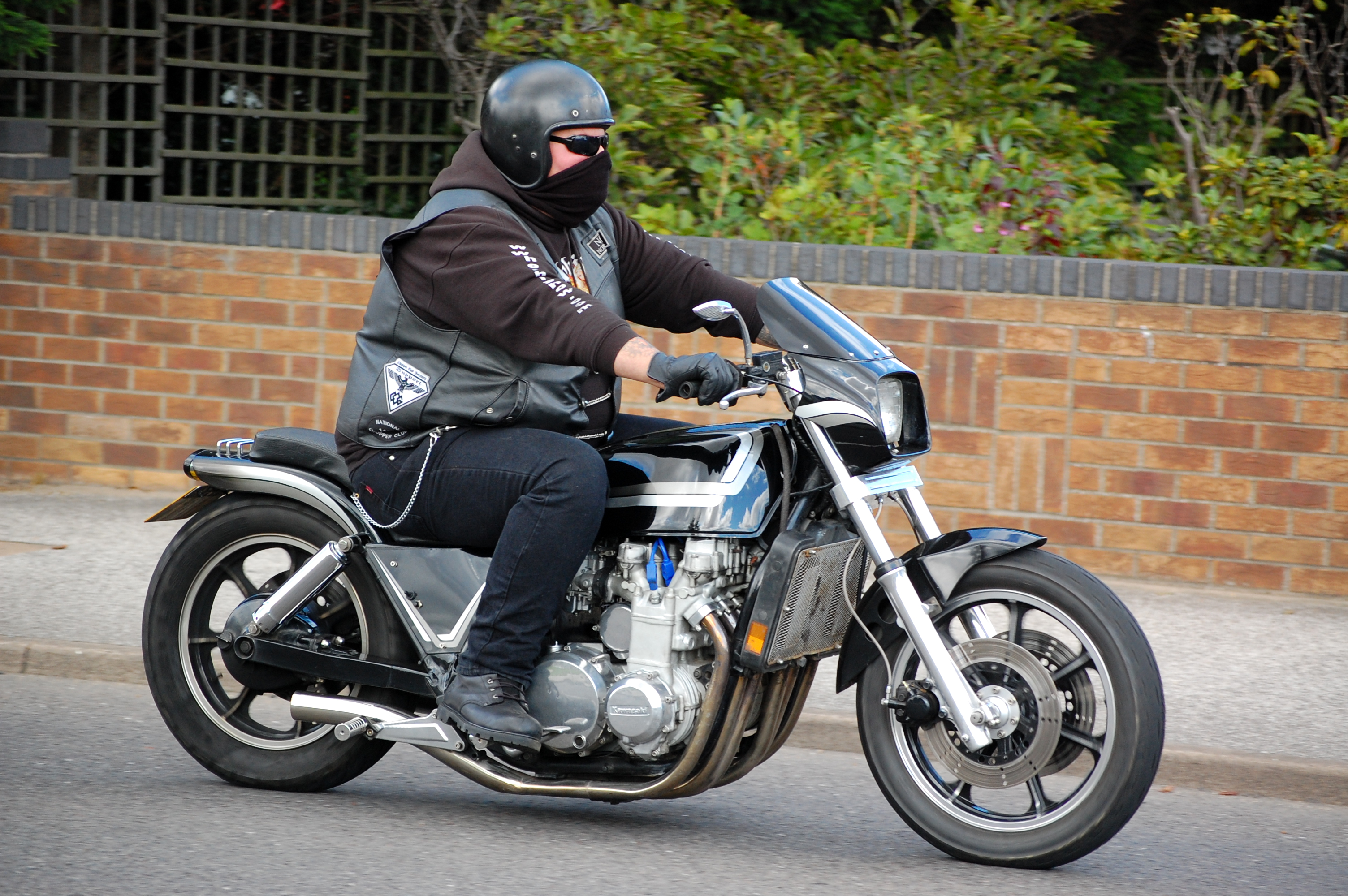 Eastern Lights Motorcycle Parade @ Lowestoft, Suffolk Kawasaki Z1300